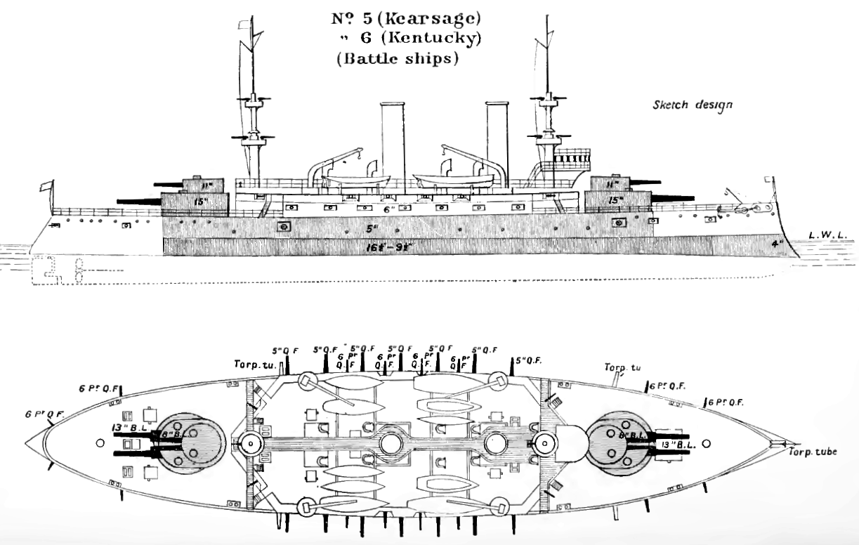 Sketch of the battleship Kearsarge class.